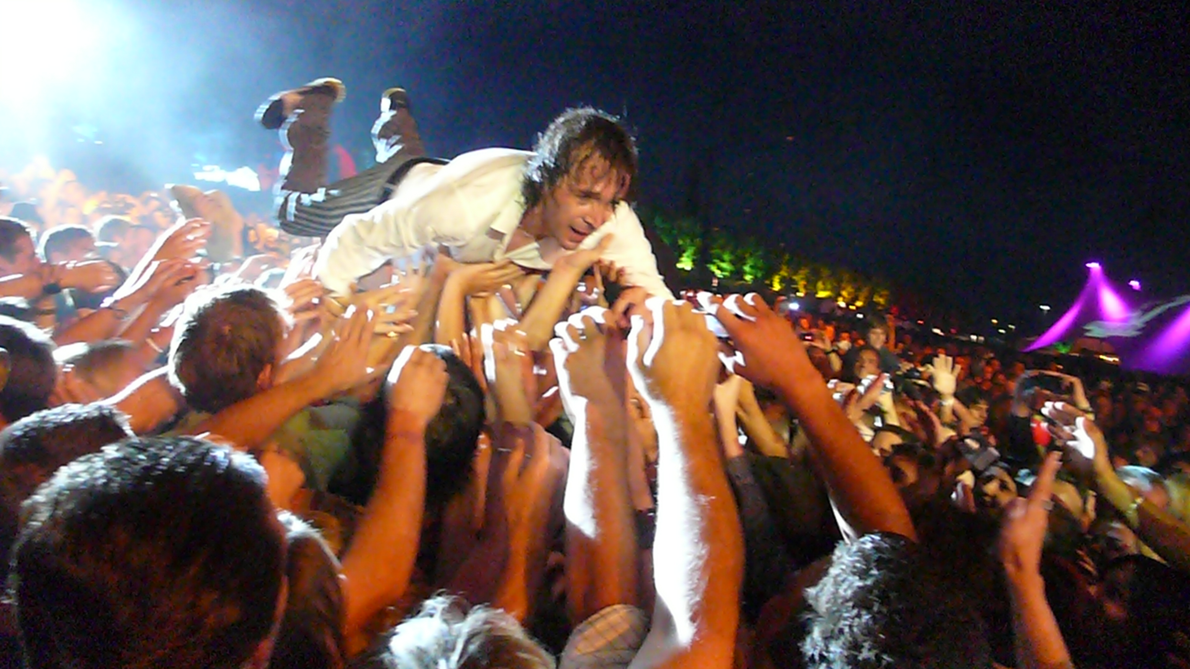 The french singer Cali during the Paléo Festival 2008 : swimming on the people